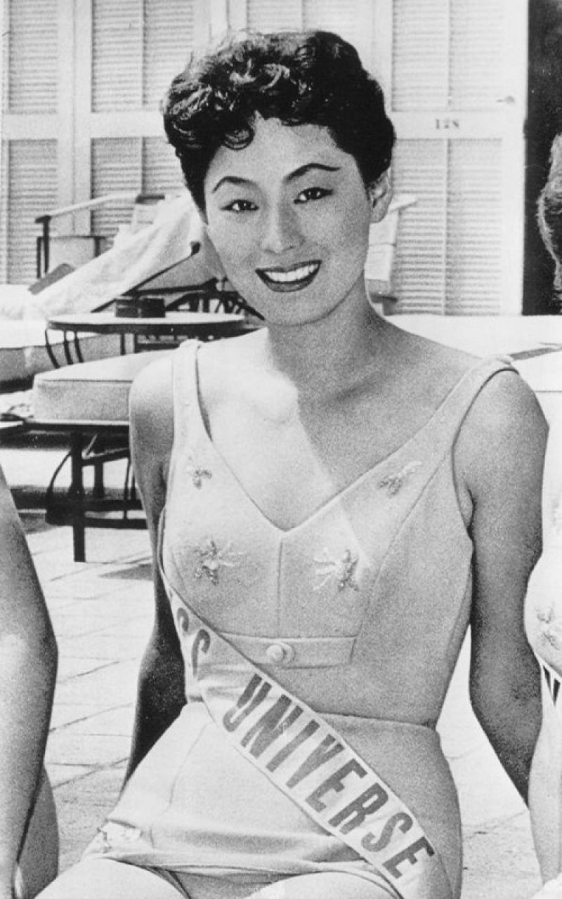 1959 Press Photo Japan's Akiko Kojima crowned Miss Universe (Long Beach, Califonia, US)